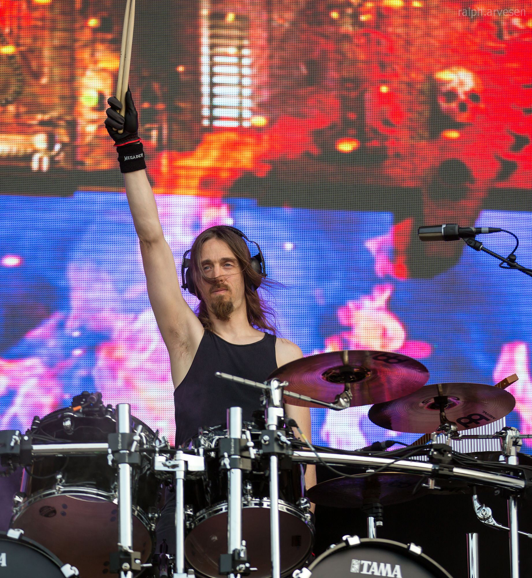 Dirk Verbeuren of Megadeth performing in San Antonio, Texas